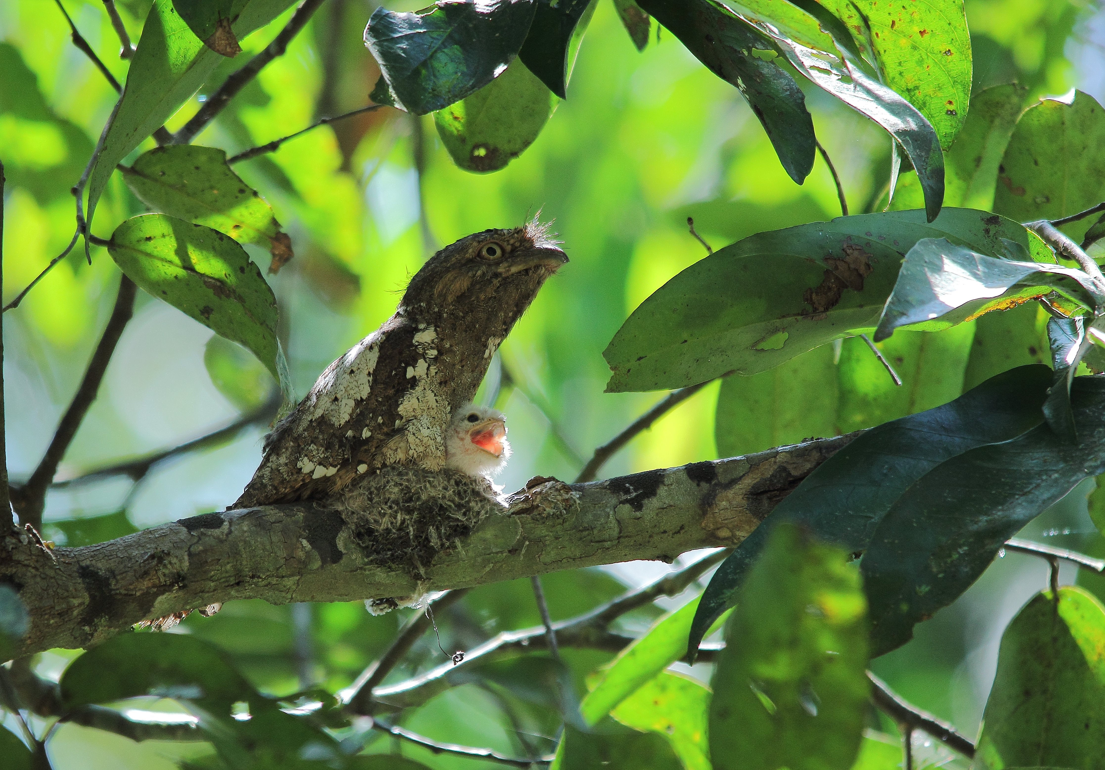 Ceylon Frogmouth is an nocturnal bird, found in dense forests of Sri Lanka, Southern India. In this pic you can see the juvenile frog mouth under the care of its mother